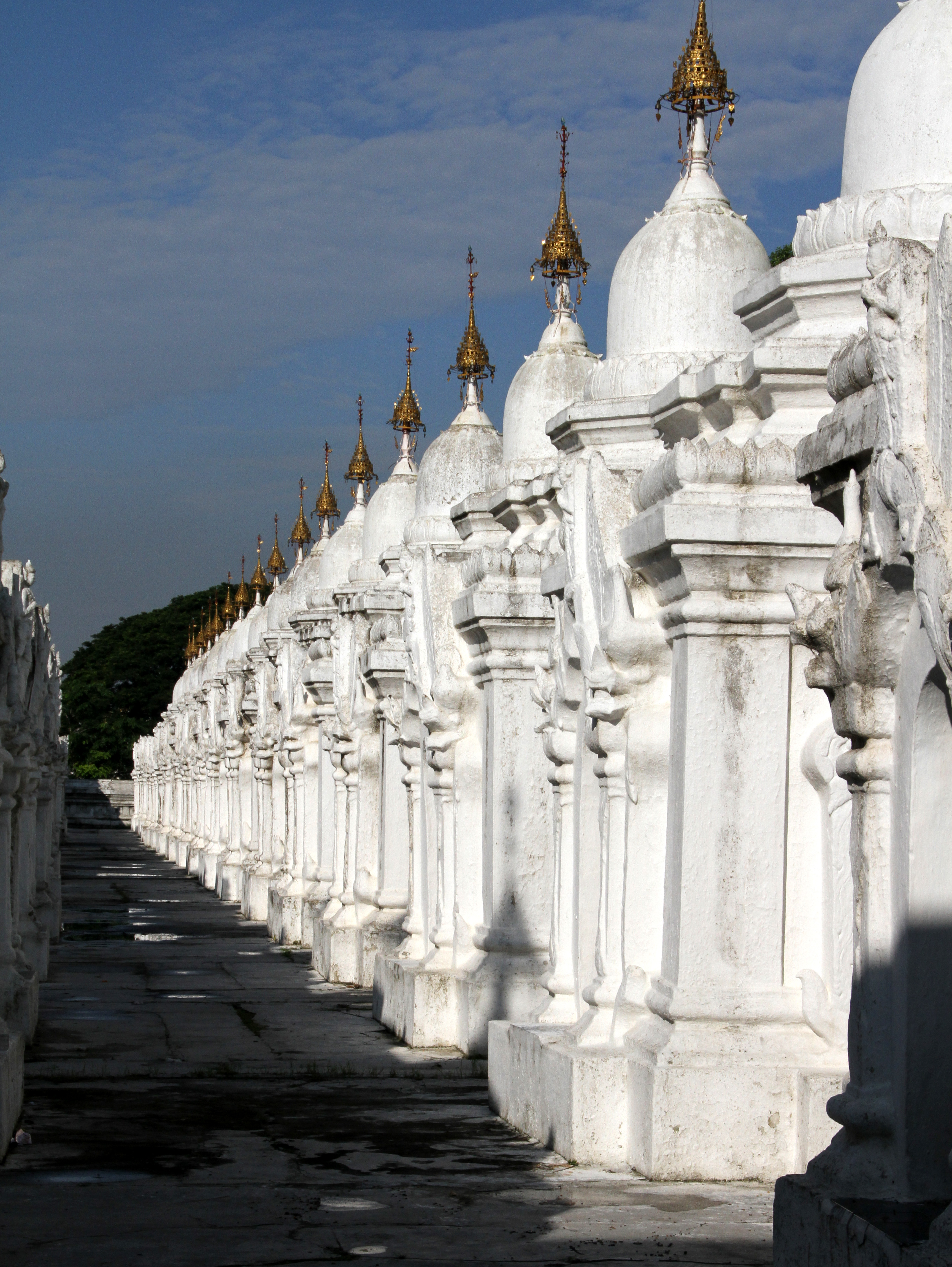 Kuthodaw Pagoda in Mandalay in Myanmar. Inscription Shrines.